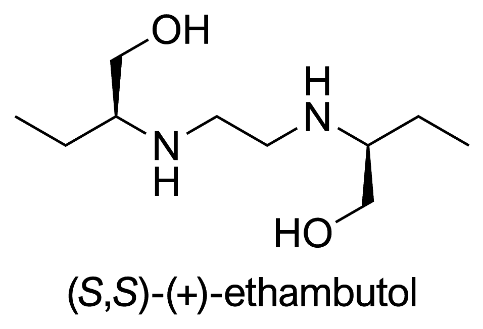 (S)(S)-(+)-ethambutol